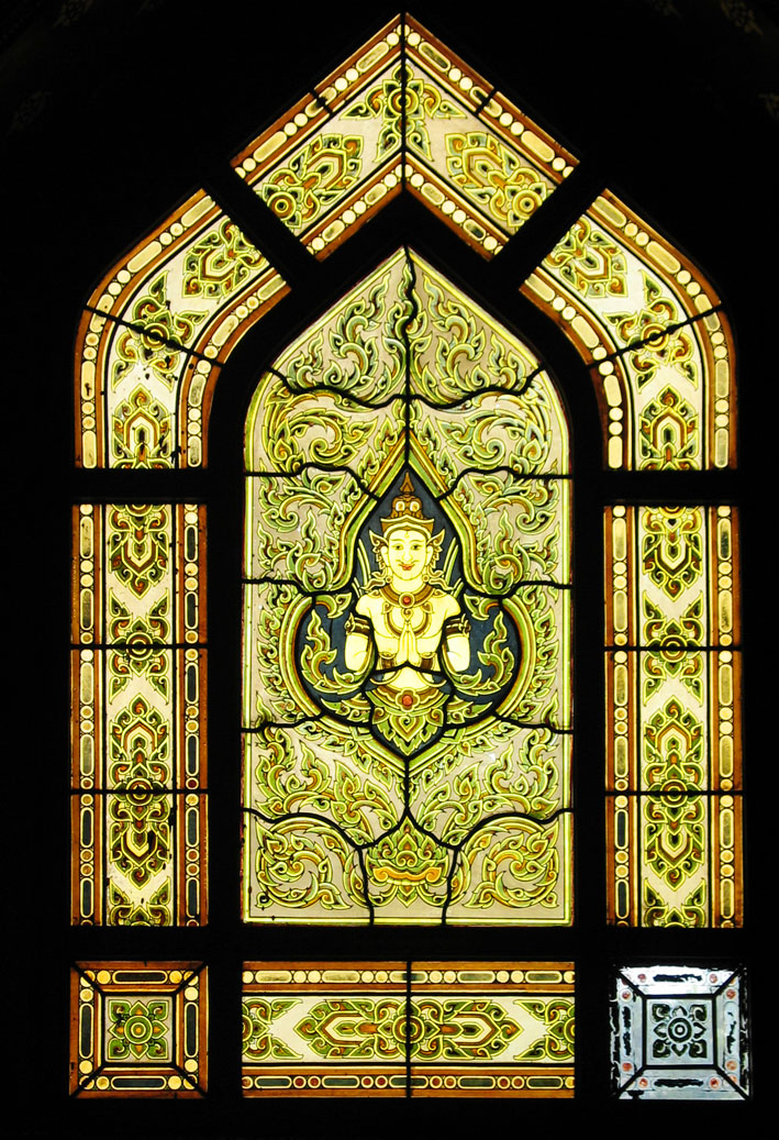 Glass Window, Ubosot of Wat Benchamabophit (Marble Temple), Bangkok, Thailand